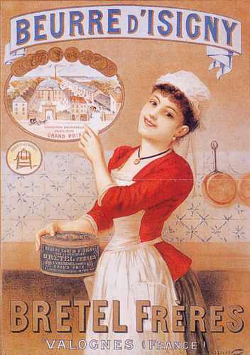 Poster for Beurre d'isigny.